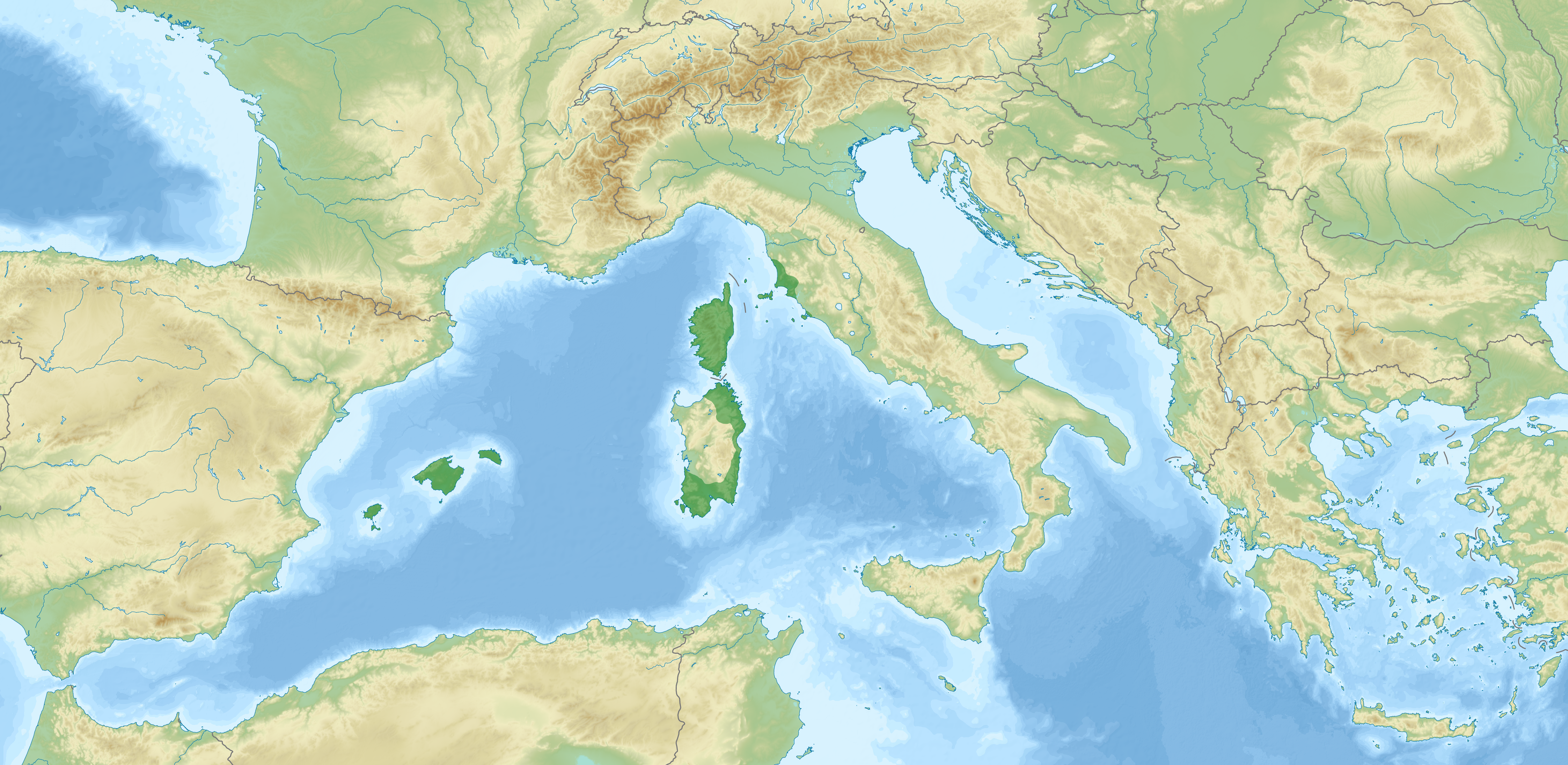 The Pisan Republic at its height.